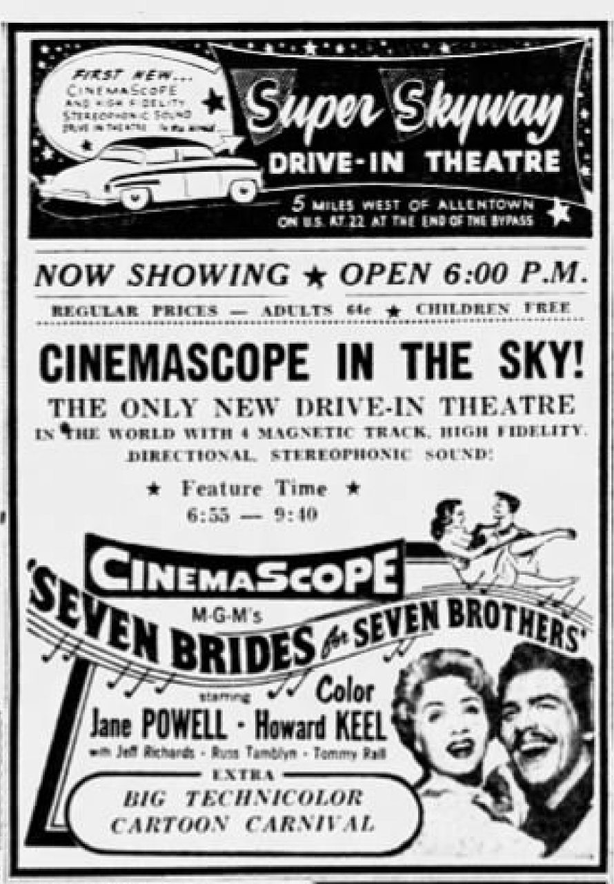 Super Skyway Drive-In theater advertisement for the American musical film Seven Brides for Seven Brothers (1954) - 8 Oct. 1954 Morning Call, Allentown PA